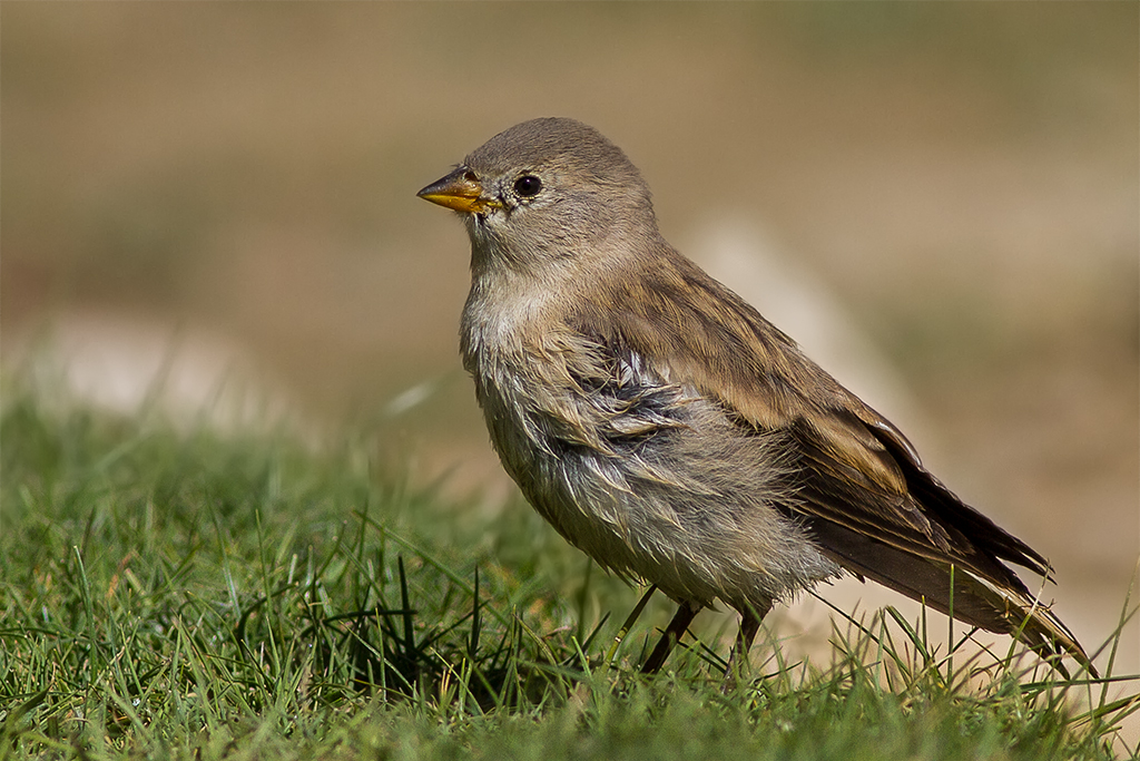 A snowfinch